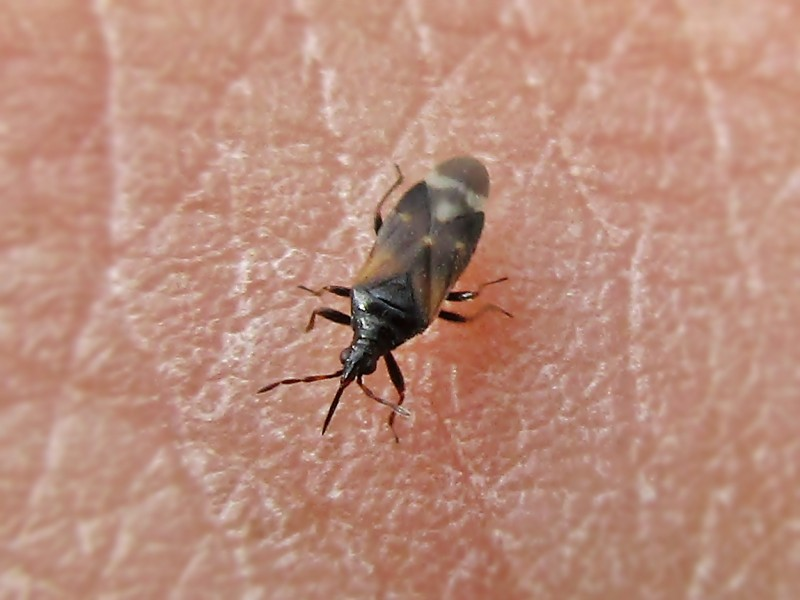 Anthocoris confusus (Anthocoridae) - (imago), Elst (Gld) - De Park, the Netherlands